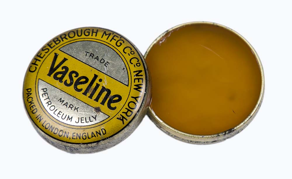 A tin of Vaseline, bronze, yellow and black in colour. Height: 13 mm Diameter: 48 mm Made by Chesebrough Manufacturing Co Cd, New York, North America, USA. Packed in London, England, UK. 1914 - 18. Copyright Statement: (Copyright) We're happy for you to share these digital images within the spirit of The Commons. Please cite 'Tyne & Wear Archives & Museums' when reusing. Certain restrictions on high quality reproductions and commercial use of the original physical version apply though; if you're unsure please